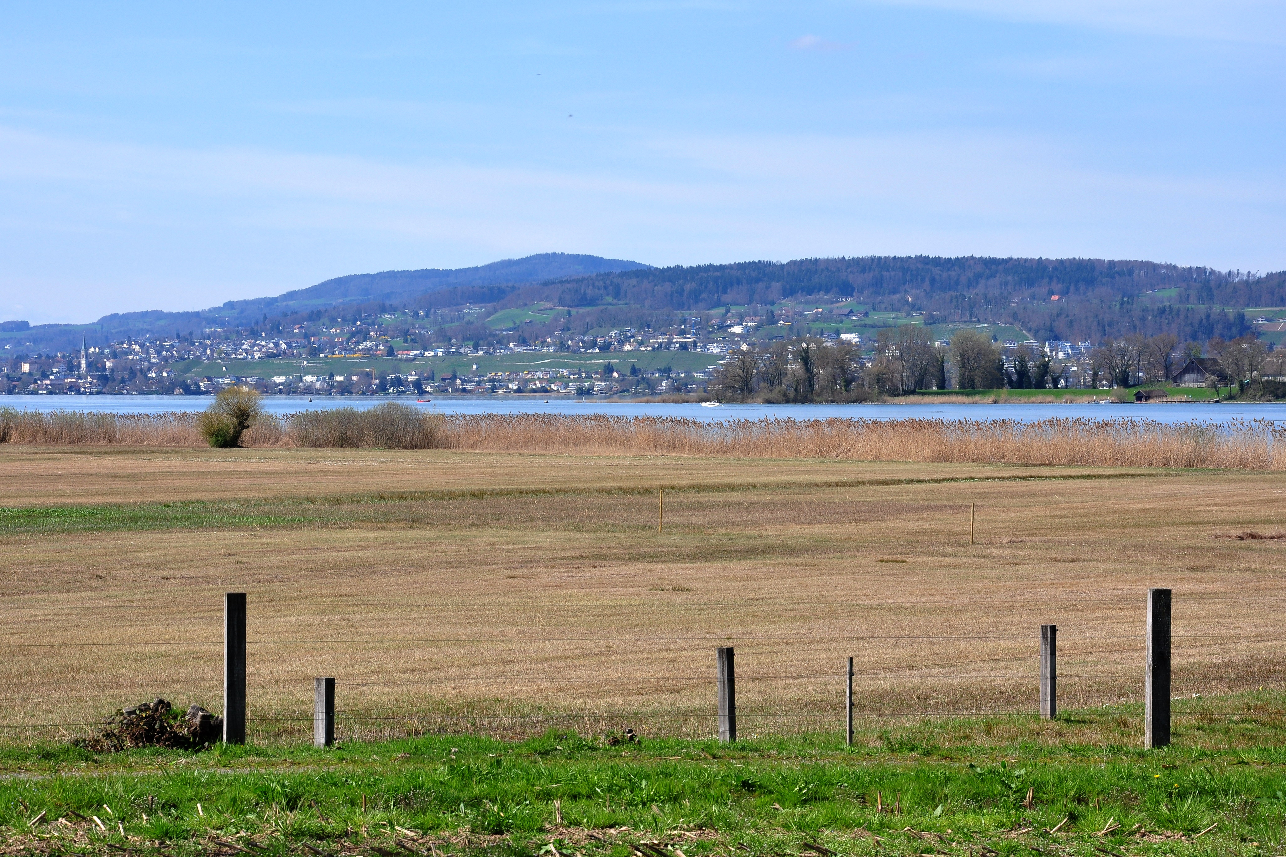 Frauenwinkel protected area on Zürichsee (Lake Zürich) in Switzerland, as seen from Seedamm, Ufenau island and Pfannenstiel in the background.